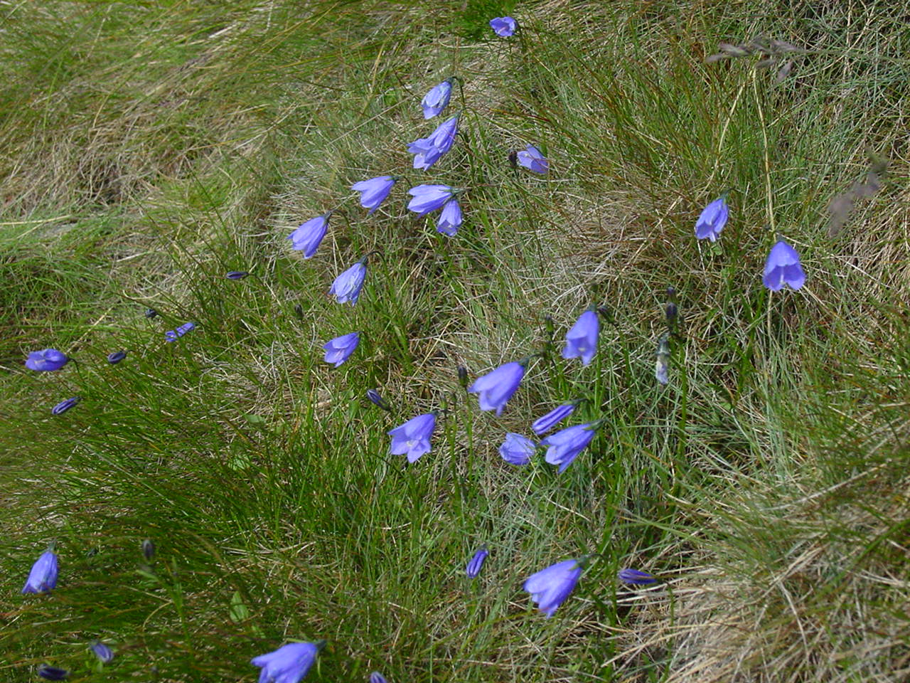 Campanula gelida, an endangered species of bellflower, stenoendemit growing only at Peter's Stones in the mountains of Hrubý Jeseník, the Czech Republic.